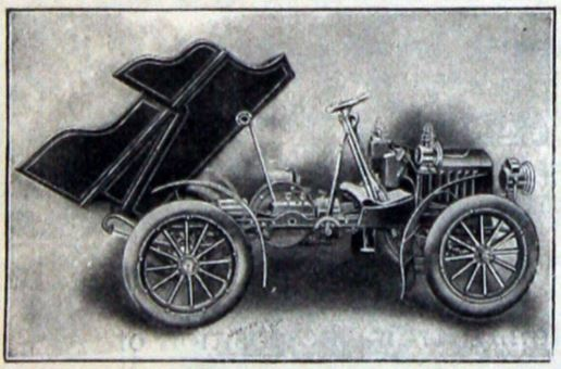 1905 Model twin-cylinder touring car with lifted Body for better accessability to the engine and Transmission under the driver's seat. Engines were of Model's own manufacture, of the opposed cylinder type, and mounted transversed.